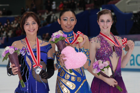 From letf : Alena Leonova (2nd), Miki Ando (1st), Ashley Wager (3rd).